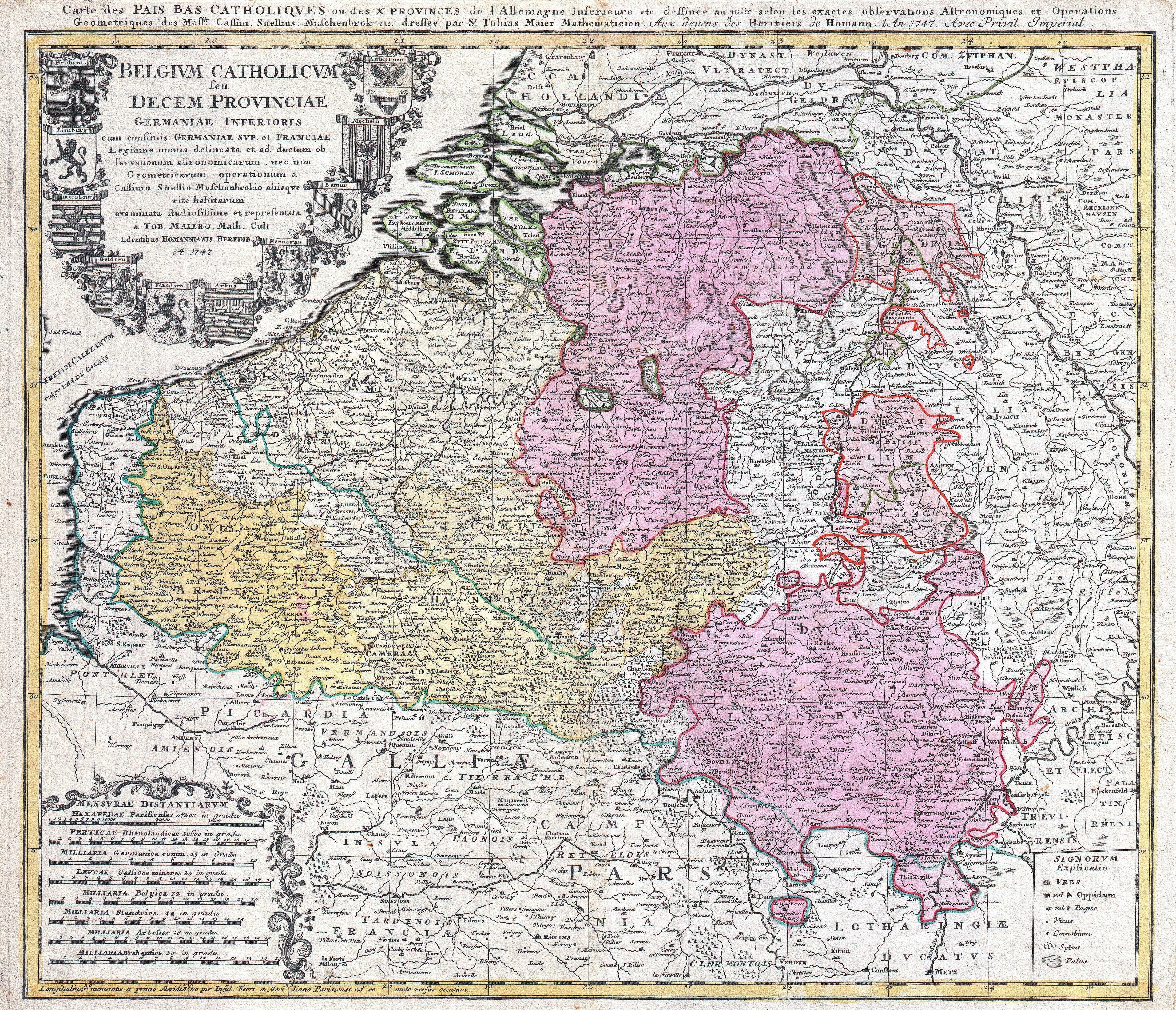 A beautifully detailed c. 1730 J. B. Homann map of Belgium and Luxembourg. Depicts Belgium and Luxembourg as well as parts of Holland, France and Germany. The map notes fortified cities, villages, roads, bridges, forests, castles and topography. The title cartouche in the upper left quadrant features the 10 heraldic crests of the nations depicted. Alternative title in French in upper margin. This map was drawn in Nuremberg by Tobias Maier and included in the c. 1752 Homann Heirs Maior Atlas Scholasticus ex Triginta Sex Generalibus et Specialibus…. .